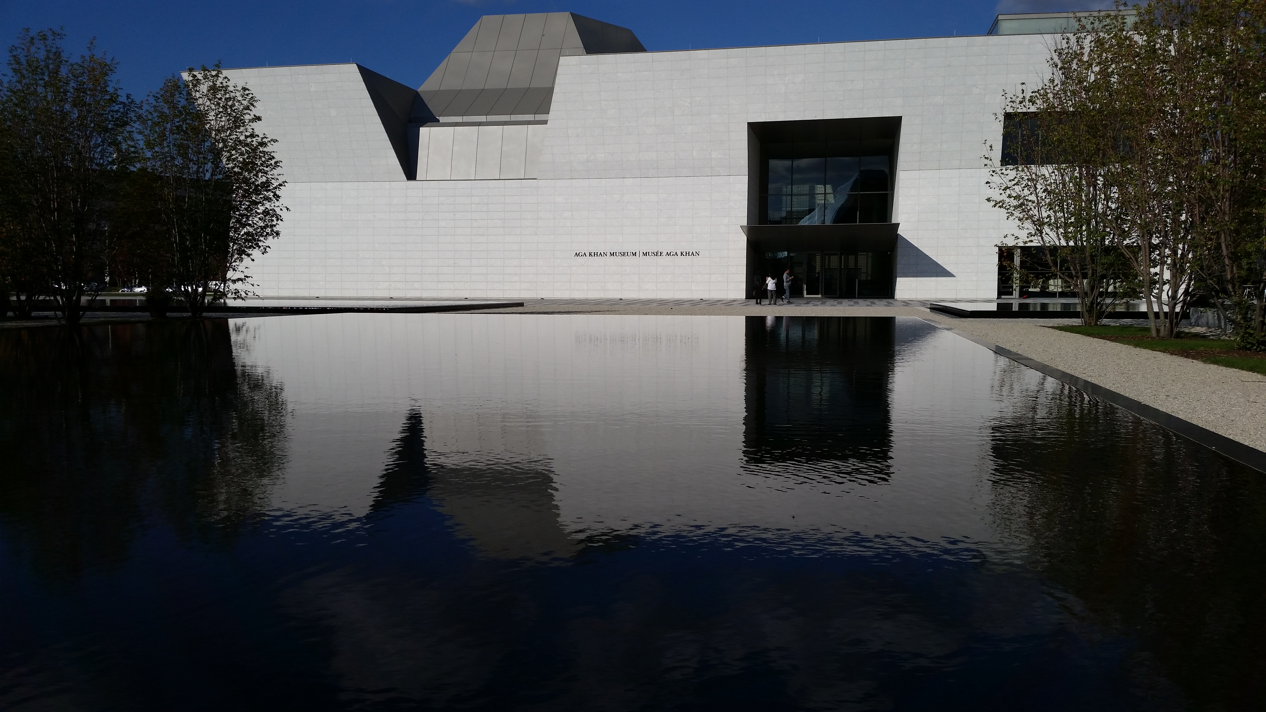 The front of the museum is reflected in a a square black stone reflrecting pond